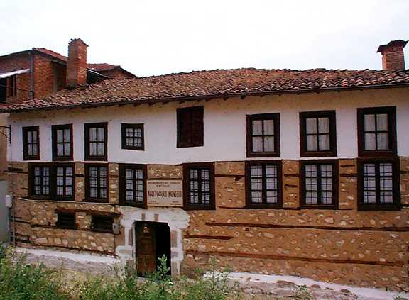 Outside view of the Museum, image from the Folklore Museum, Kastoria, West Macedonia, Greece